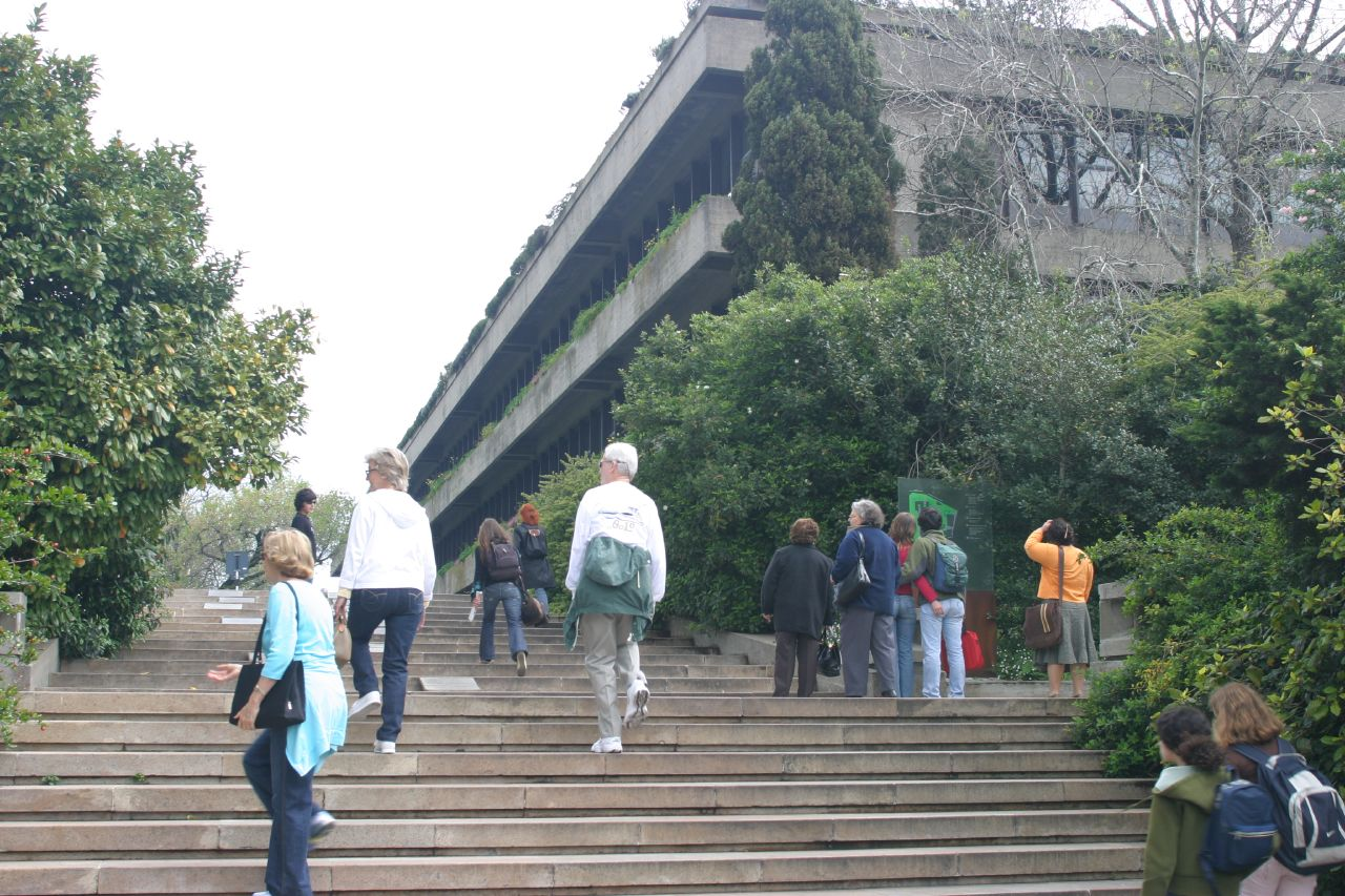 Calouste Gulbenkian Museum,Lisbon/Portugal (2007)